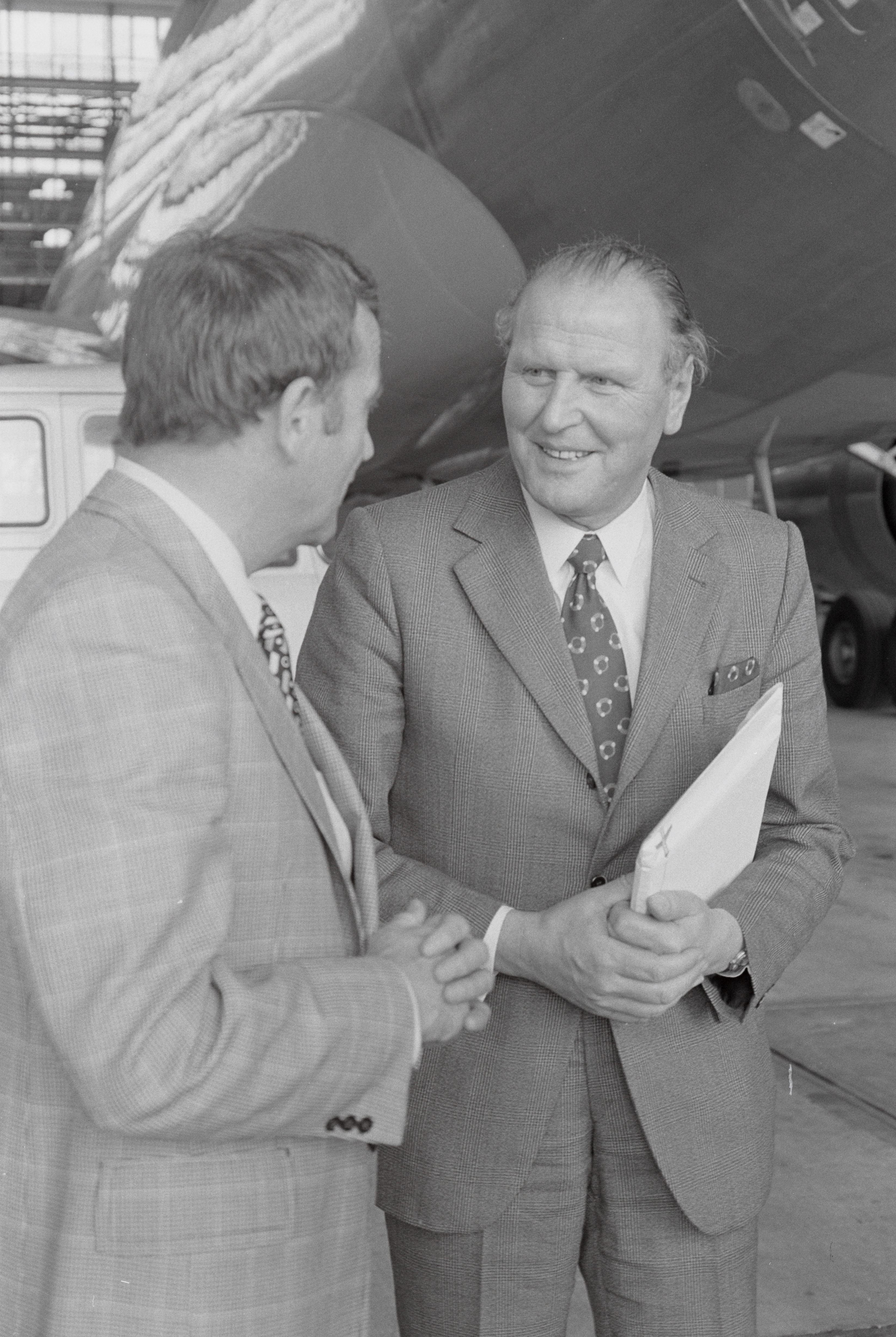 Willi Ritschard, member of the Swiss government visits the technical department of Swissair